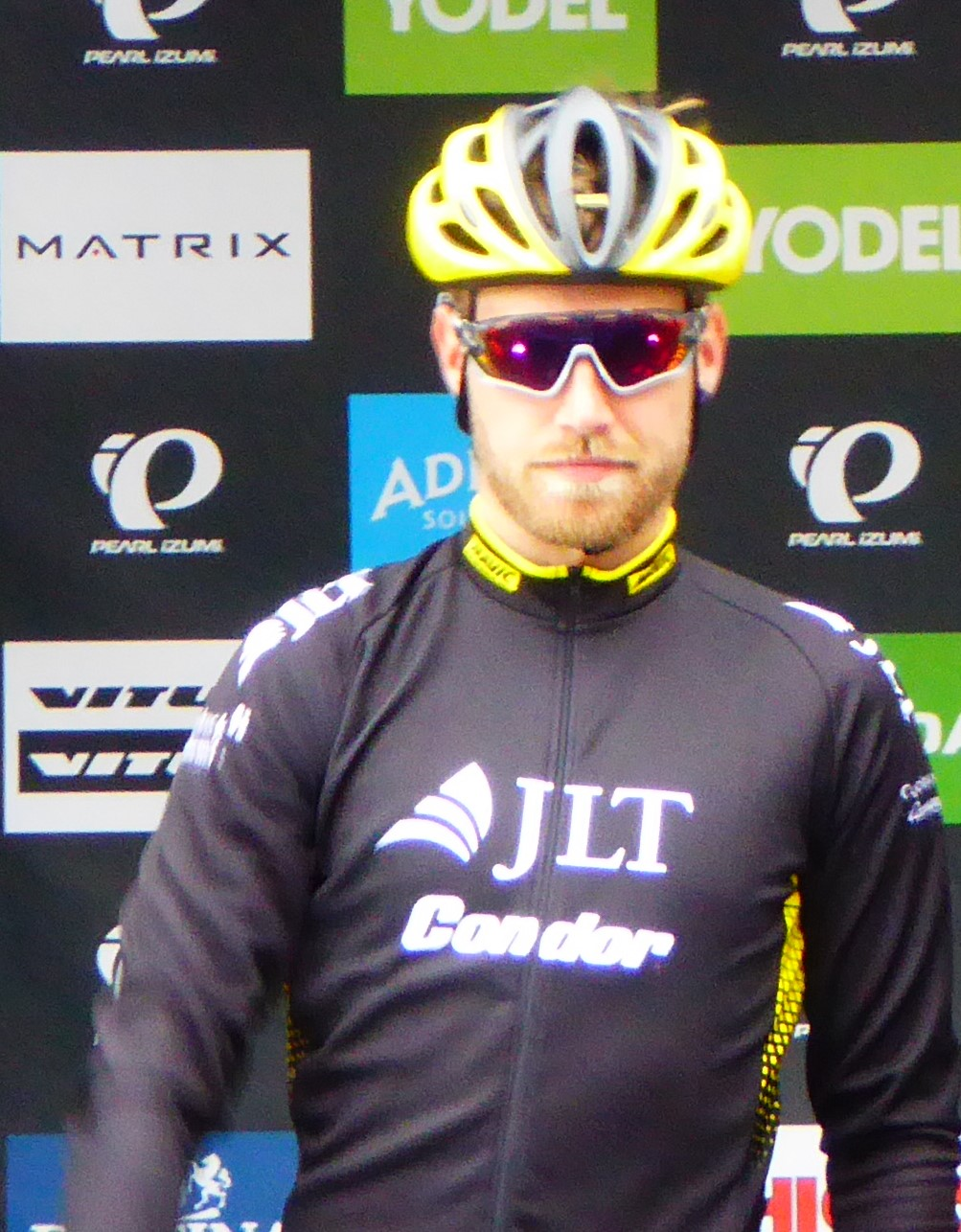 Chris Lawless, prior to Round 2 of the Pearl Izumi Tour Series in Motherwell, on 17 May 2016